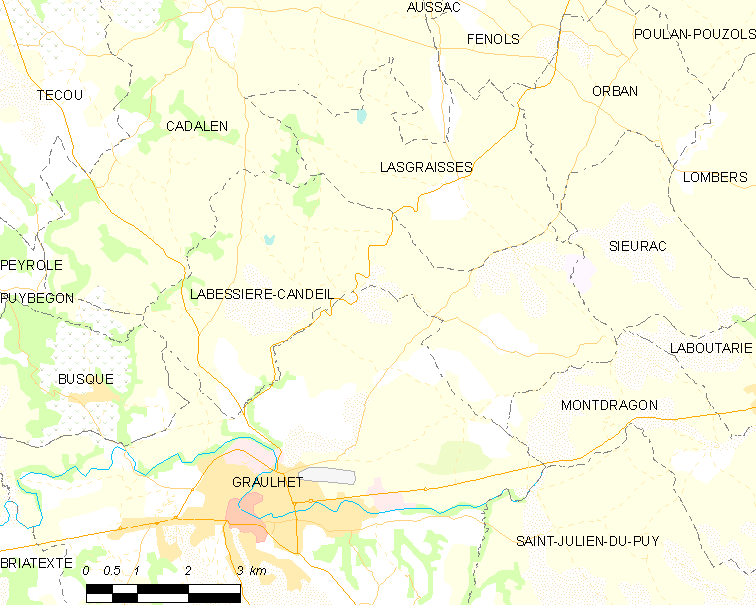 Map of French municipality Labessière-Candeil